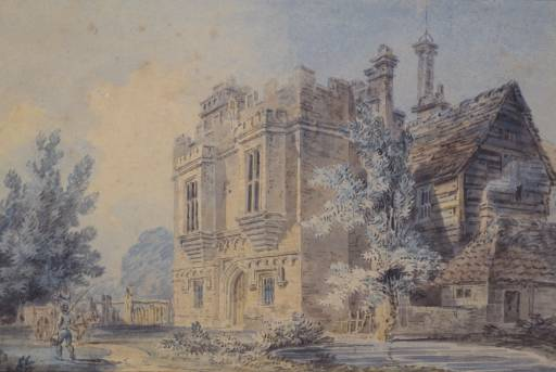 The gatehouse at Rye House, Hertfordshire, United Kingdom.